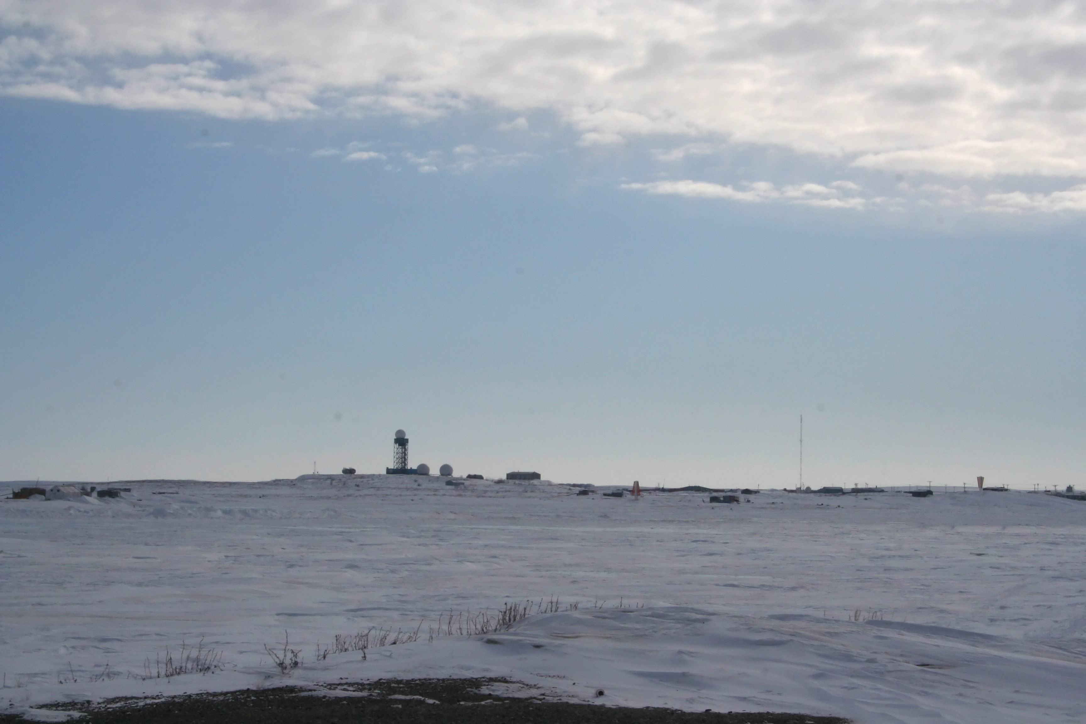 Distant Early Warning line radar station...probably 'BAR-3'